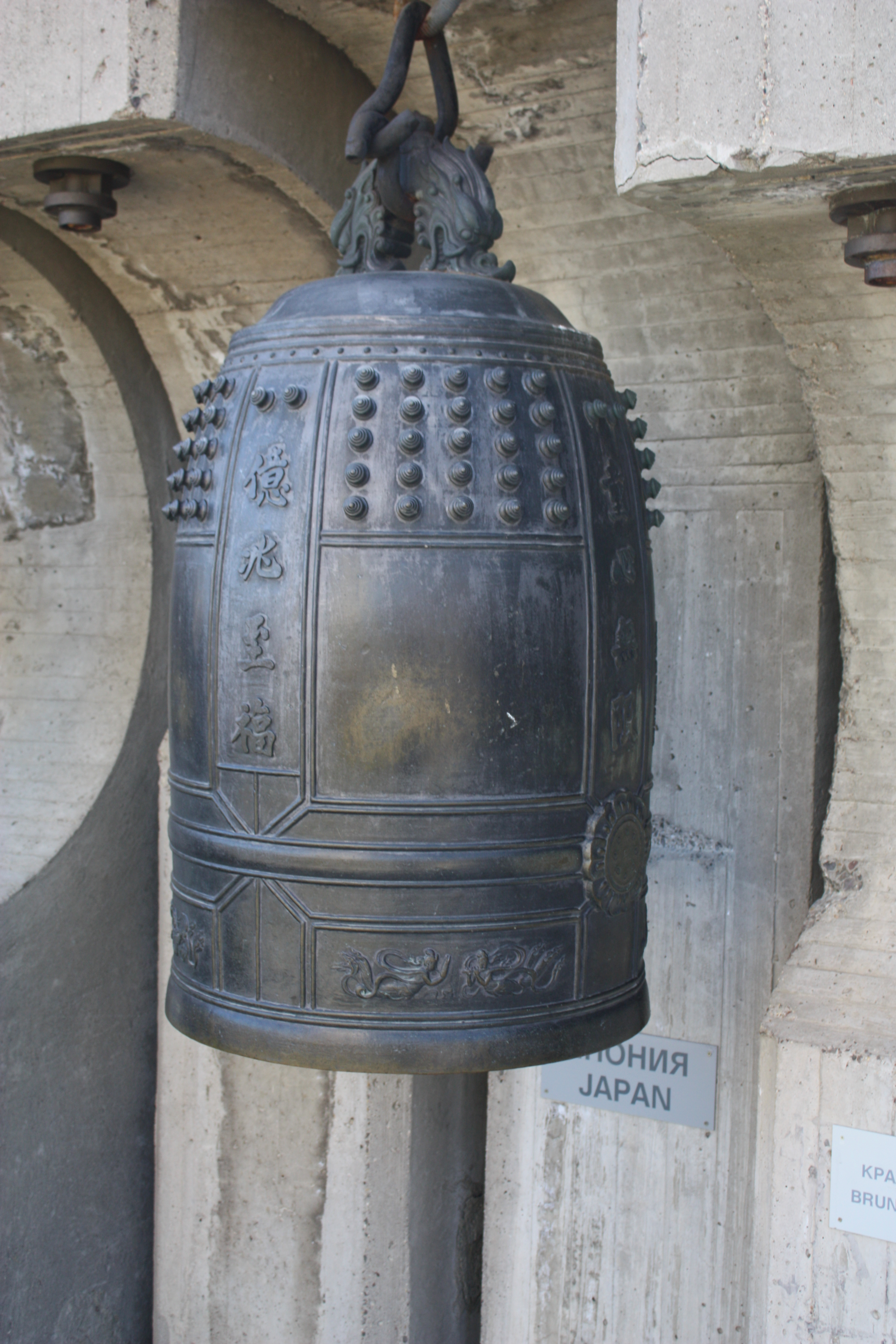 The bells, Die Glocken, Kambanite, Sofia, Bulgaria, Камбаните, София; the bell is from Japan